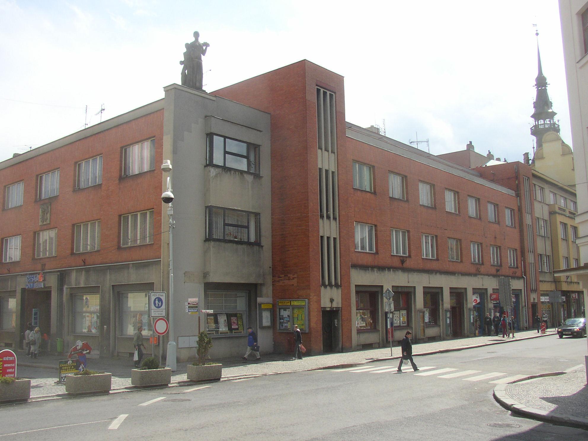 Building of former municipal savings bank from 1931 in Slaný, Czech Republic designed by architect Alois Mezera.